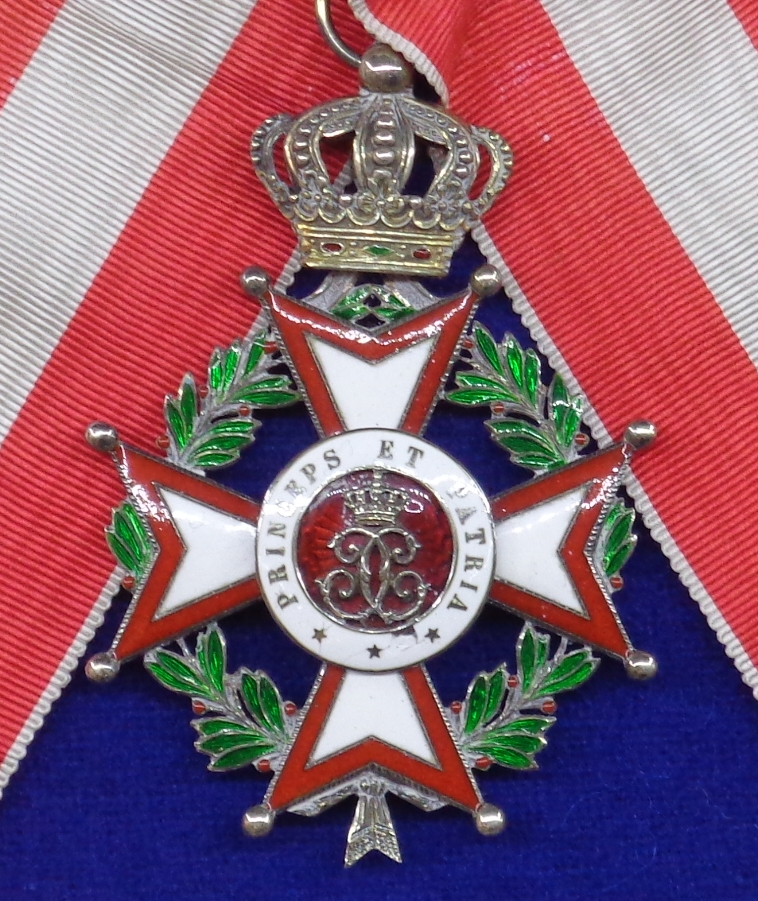 Order of Saint Charles, badge of Grand Cross. Monaco. The exhibition of the Tallinn Museum of Orders of Knighthood, Estonia.